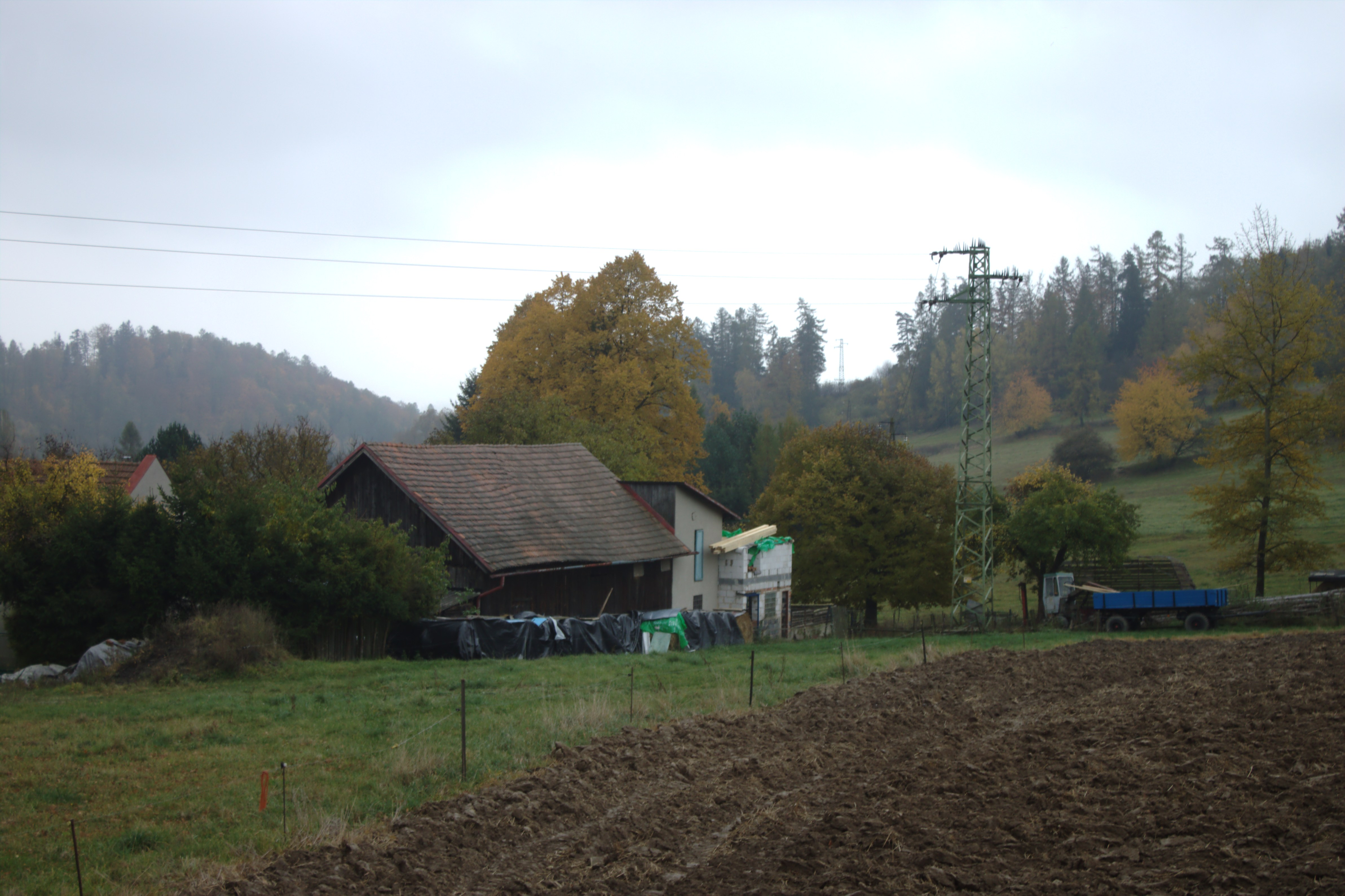 A building at the limit of the village of Čaková, Moravian-Silesian Region, CZ